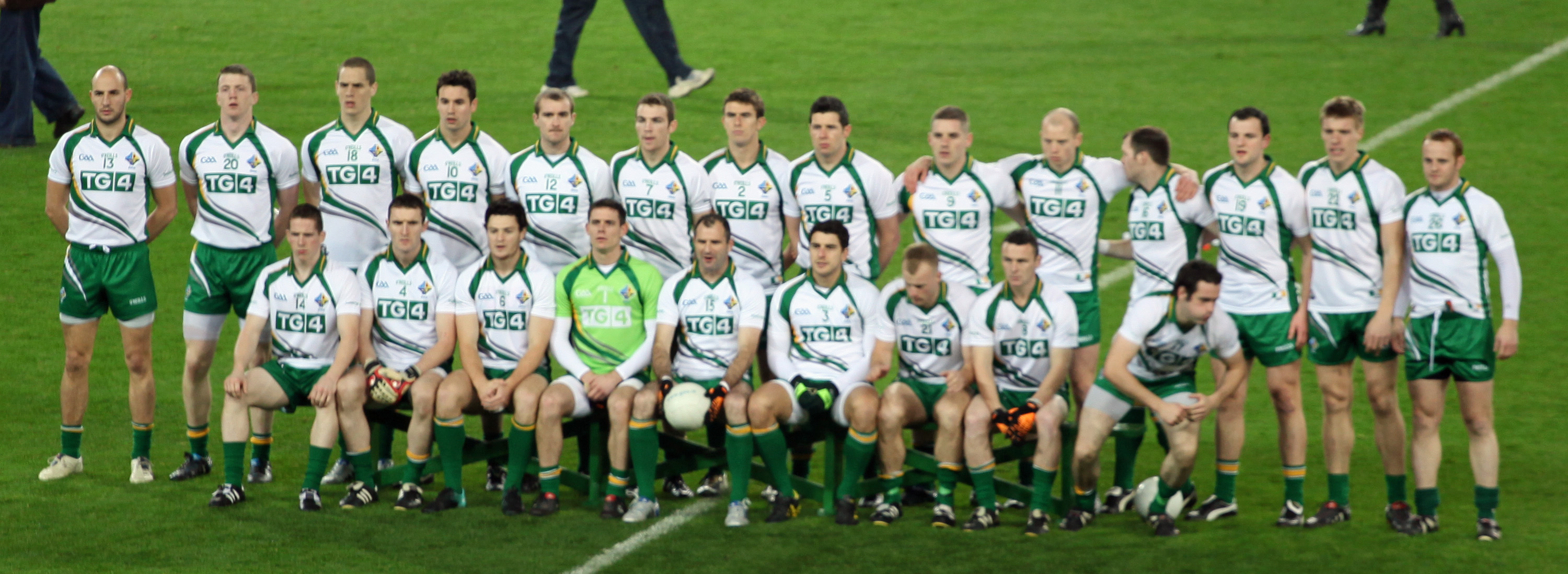 Ireland international rules football team